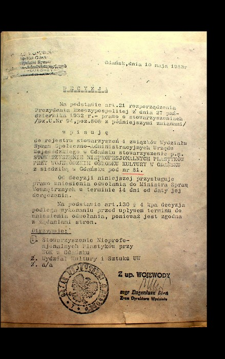 SNP Entry in the register of polish associations from 1983.